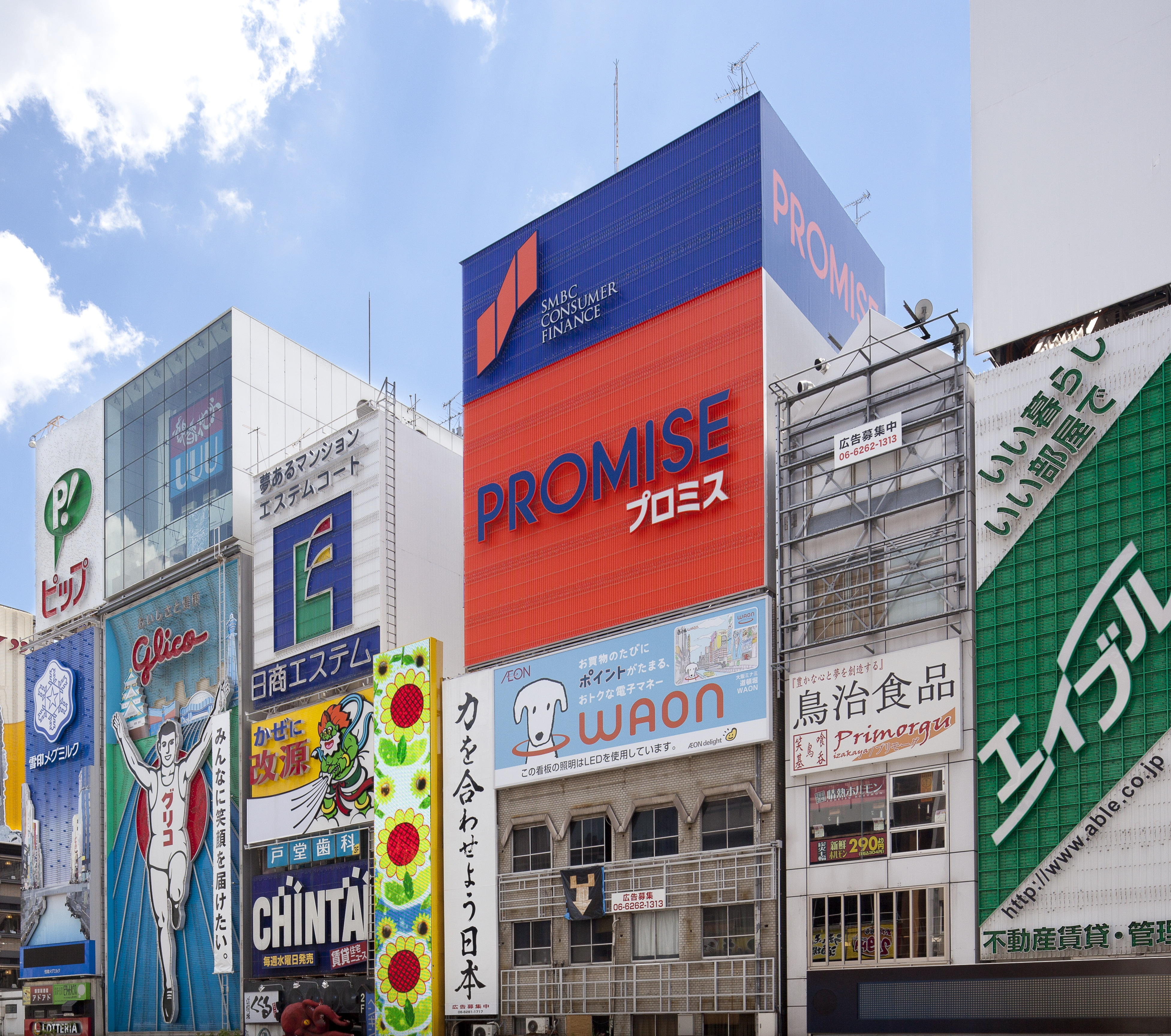 道頓堀の看板